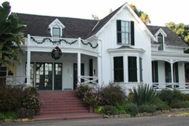 The Stow House — in Goleta, Santa Barbara County, California. 1870s Carpenter Gothic style house — present day historic house museum. On the National Register of Historic Places.